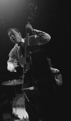 Elvis Presley live with Scotty Moore and Bill Black